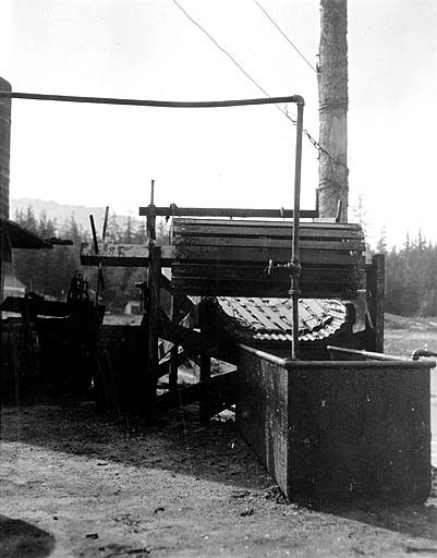 From John Cobb field notebook: F.W. cannery; tarring tanks. Aug. 1918 Machine for tarring nets, Fort Wrangell, Alaska Subjects (LCSH): Fishing nets--Alaska--Wrangell; Fishing nets--Maintenance and repair; Gillnetting--Alaska--Wrangell; Salmon fisheries--Alaska--Wrangell